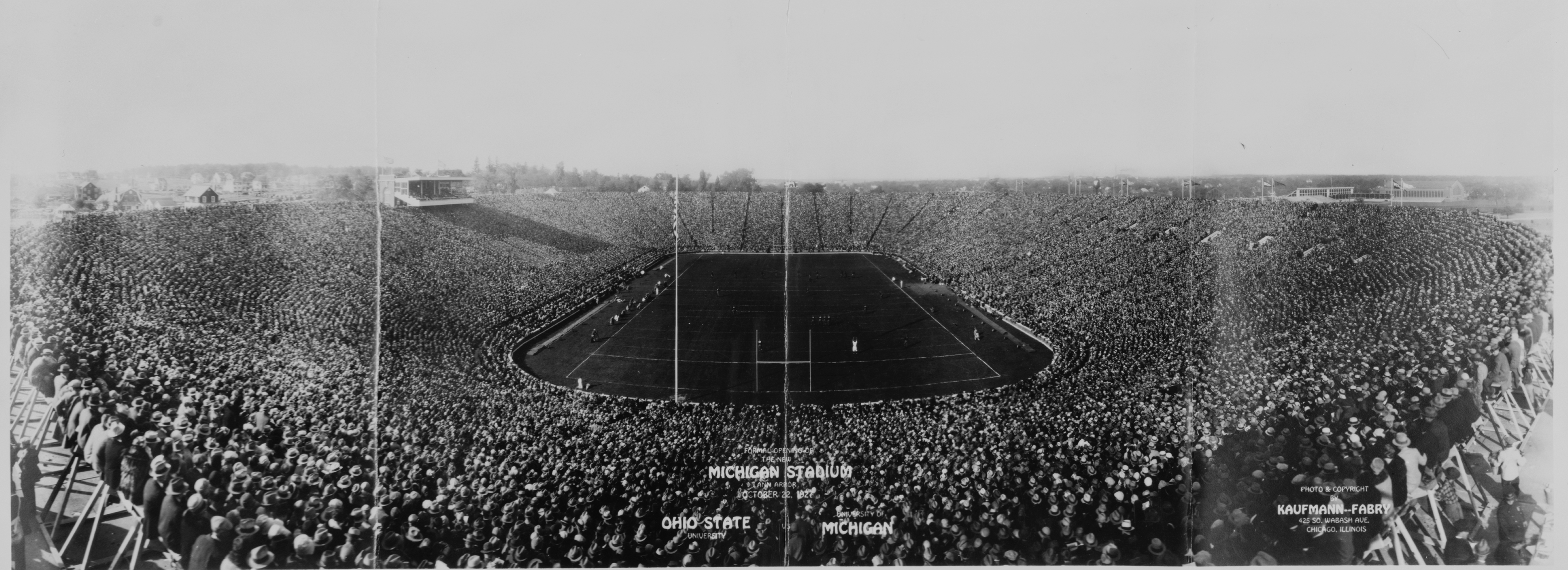 Formal opening of the new Michigan Stadium, with the game Ohio State Buckeyes vs. Michigan Wolverines.